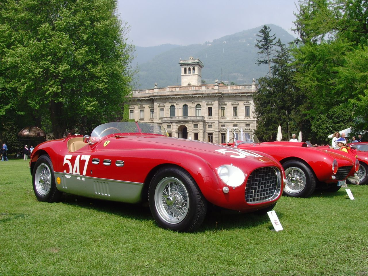 1953 Ferrari 340MM Vignale Spyder s/n 0280AM at the Concorso d'Eleganza Villa d'Este 2007. Behind, the 1953 Ferrari 375 MM Pinin Farina Spyder s/n 0360AM.[1]